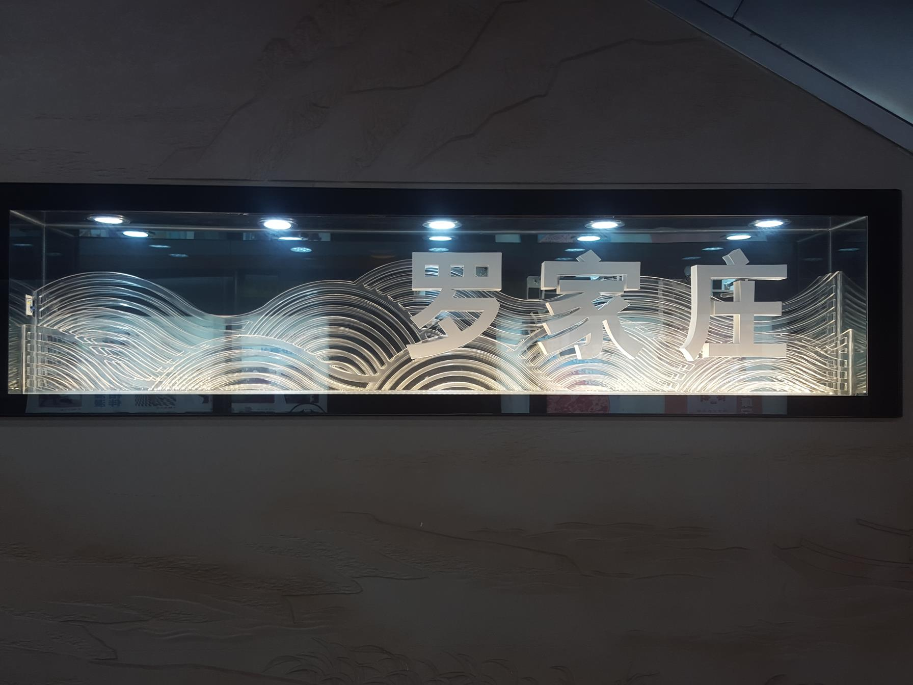 Name Box of Luojiazhuang Station, Wuhan Metro